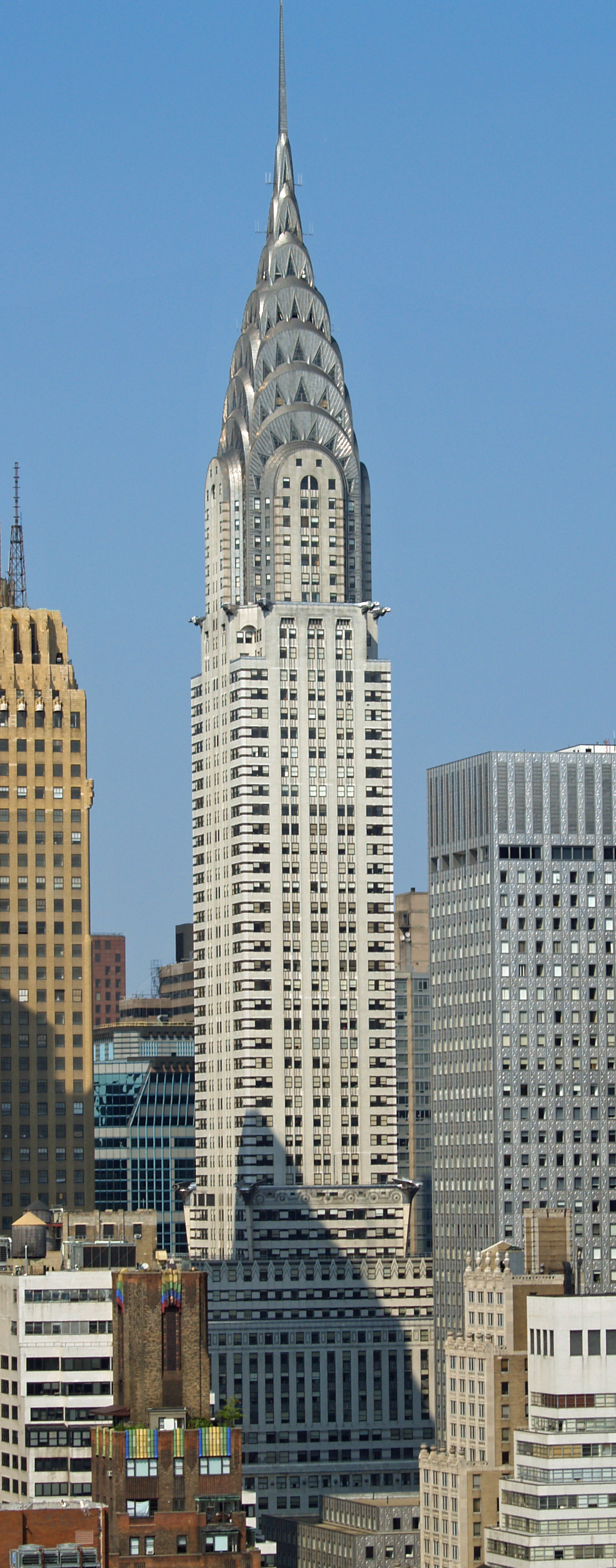 Chrysler BuildingThe photographer dedicates this image of the Chrysler Building to Wikipedia editor Mongo. Mongo is one of the content kings of Wikipedia, and is responsible for a large swathe of its best articles, which you can view on his user page.